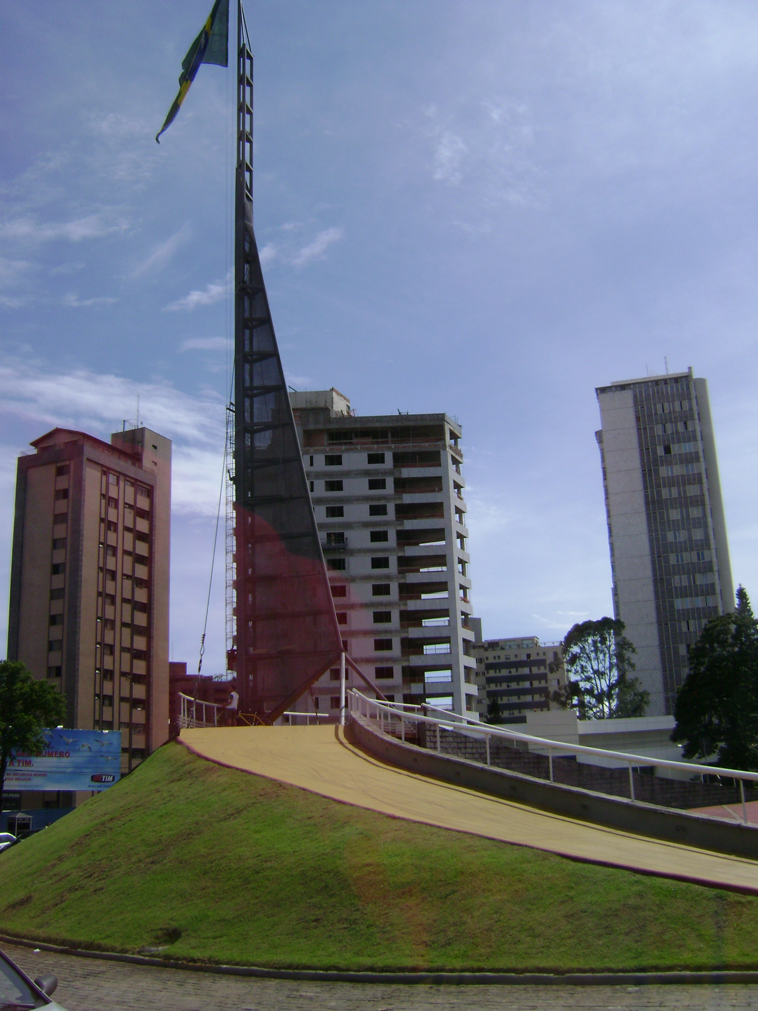 Praça da Bandeira em Belo Horizonte